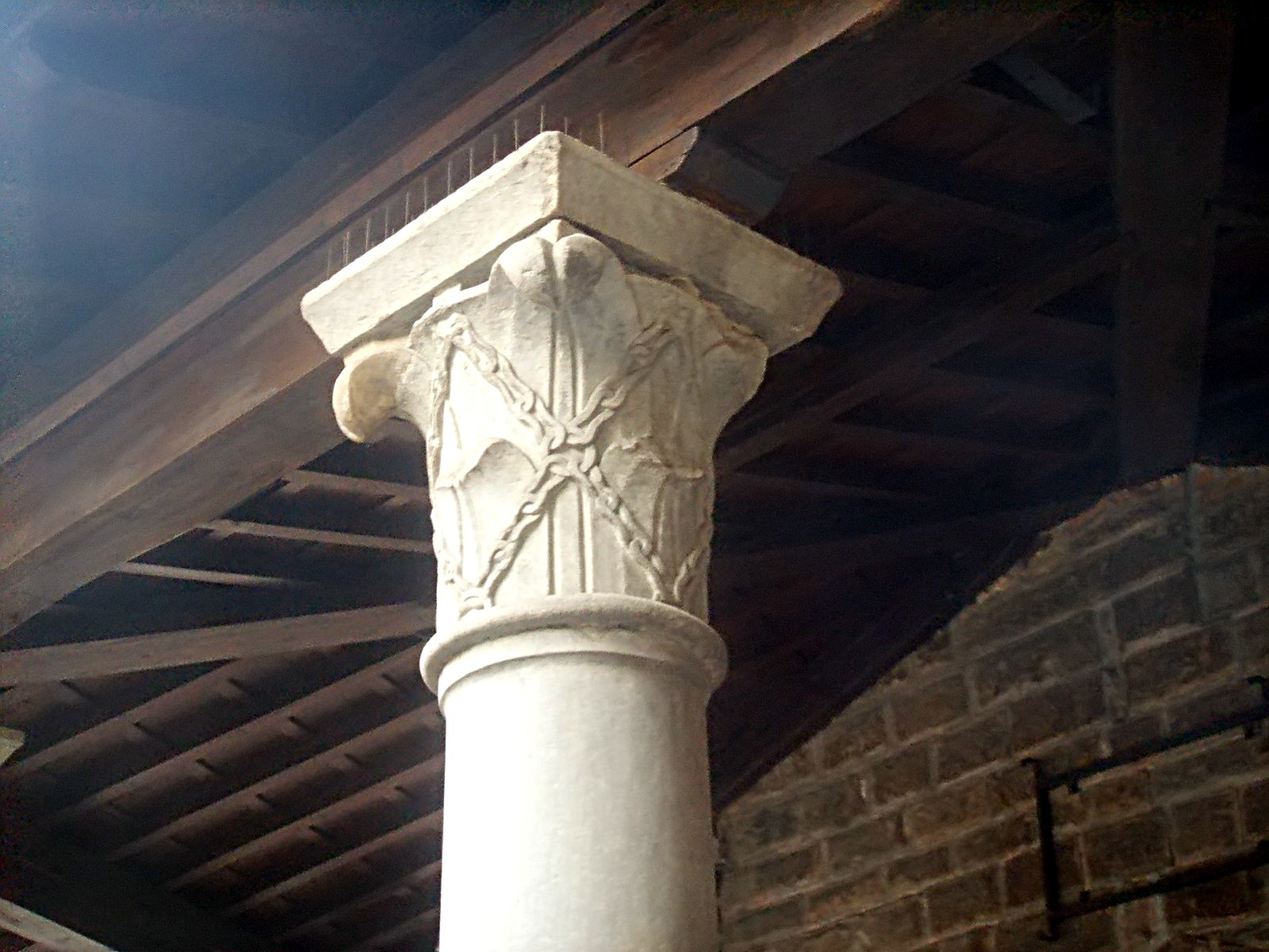 Column of the Alberti Tower (Torre degli Alberti) in Florence, with the coat of arms (chains) of the House of Alberti.